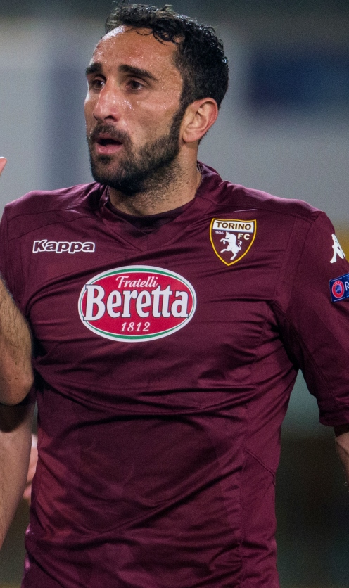 20.03.15. Италия, Турин, «Стадио Олимпико». Лига Европы УЕФА, 1/8 финала, «Торино» — «Зенит». Cristian Molinaro